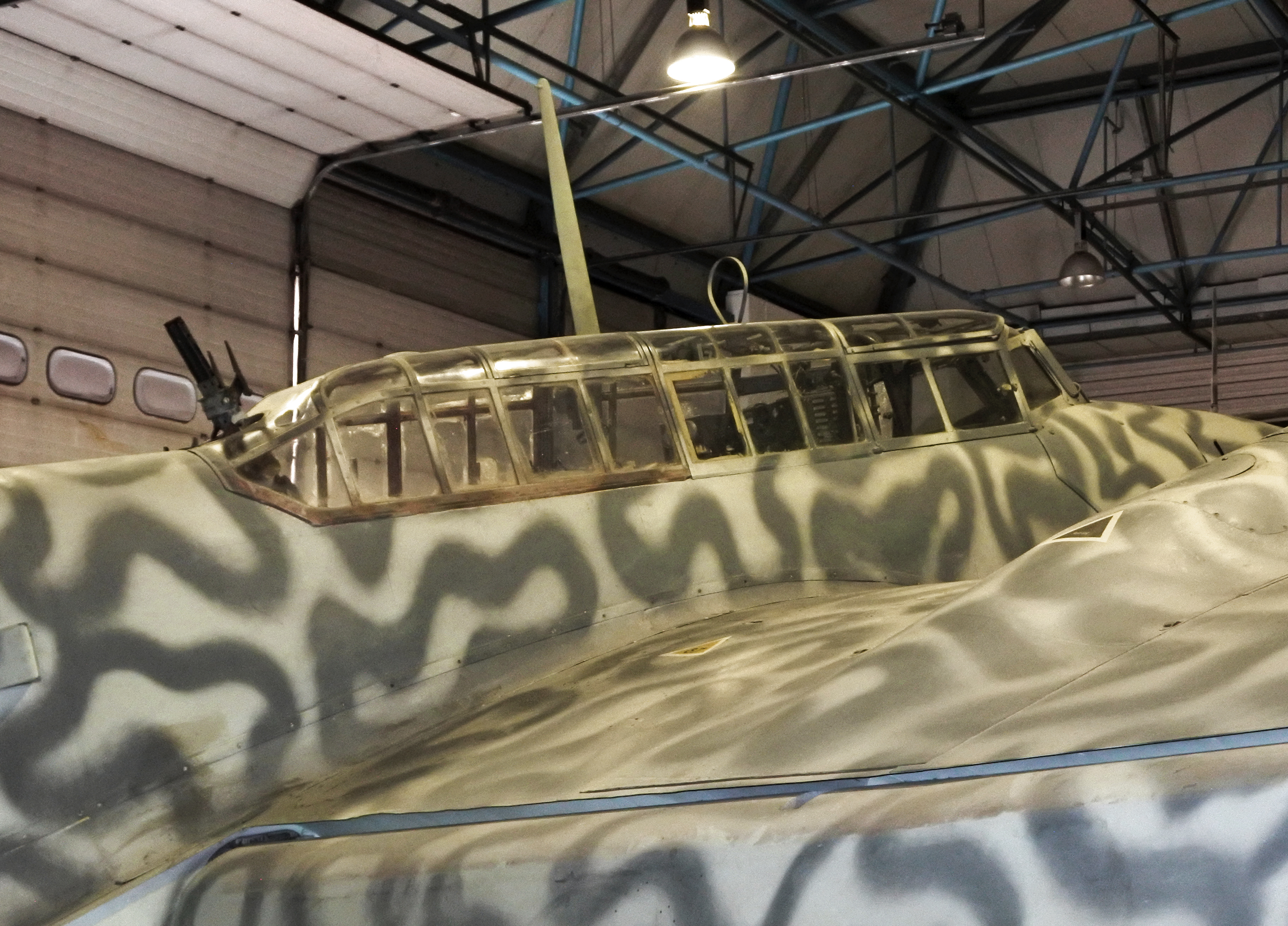 Bf-110 G-4 cockpit; RAF Museum London.